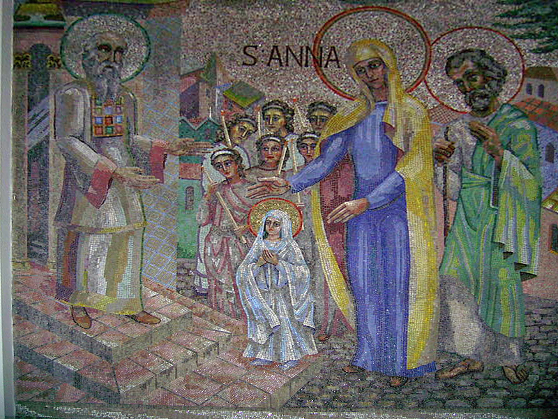 Saint_Anne_mosaic_Mullingar Own Camera Work May 2007 Jeane dArc